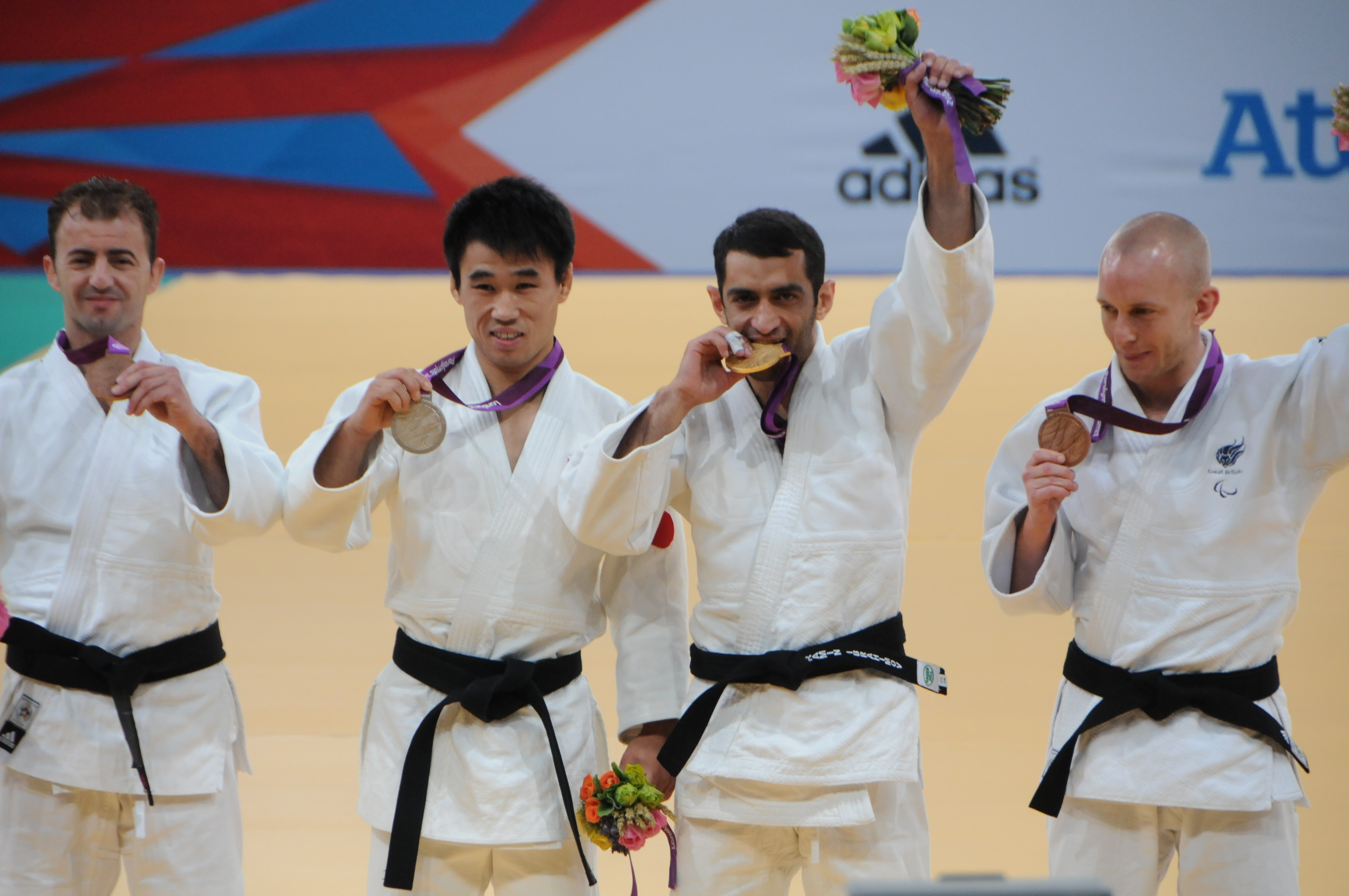 Ramin Ibragimov at the 2012 Summer Paralympics